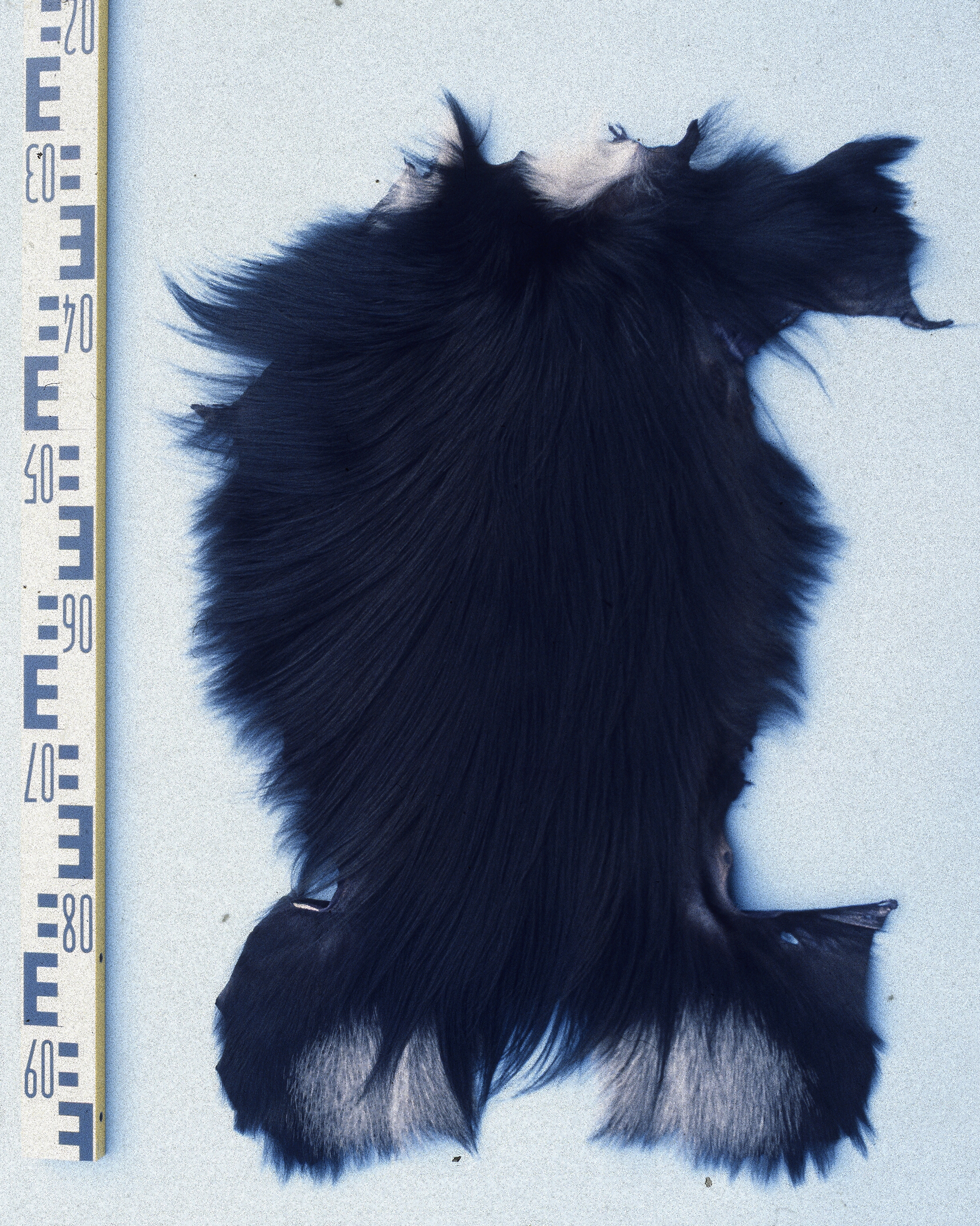 Black and white colobus (Colobus polycomos vellerosus). Fur skin collection, Bundes-Pelzfachschule, Frankfurt/Main, Germany